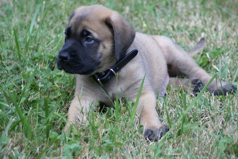 English Mastiff Puppy